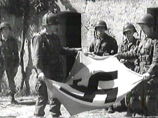 Soldiers of the 101. US-Airborne Division with a nazi flag.